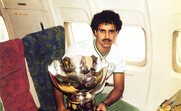 Shaya Al-Nfisah is a Saudi Arabian football player.